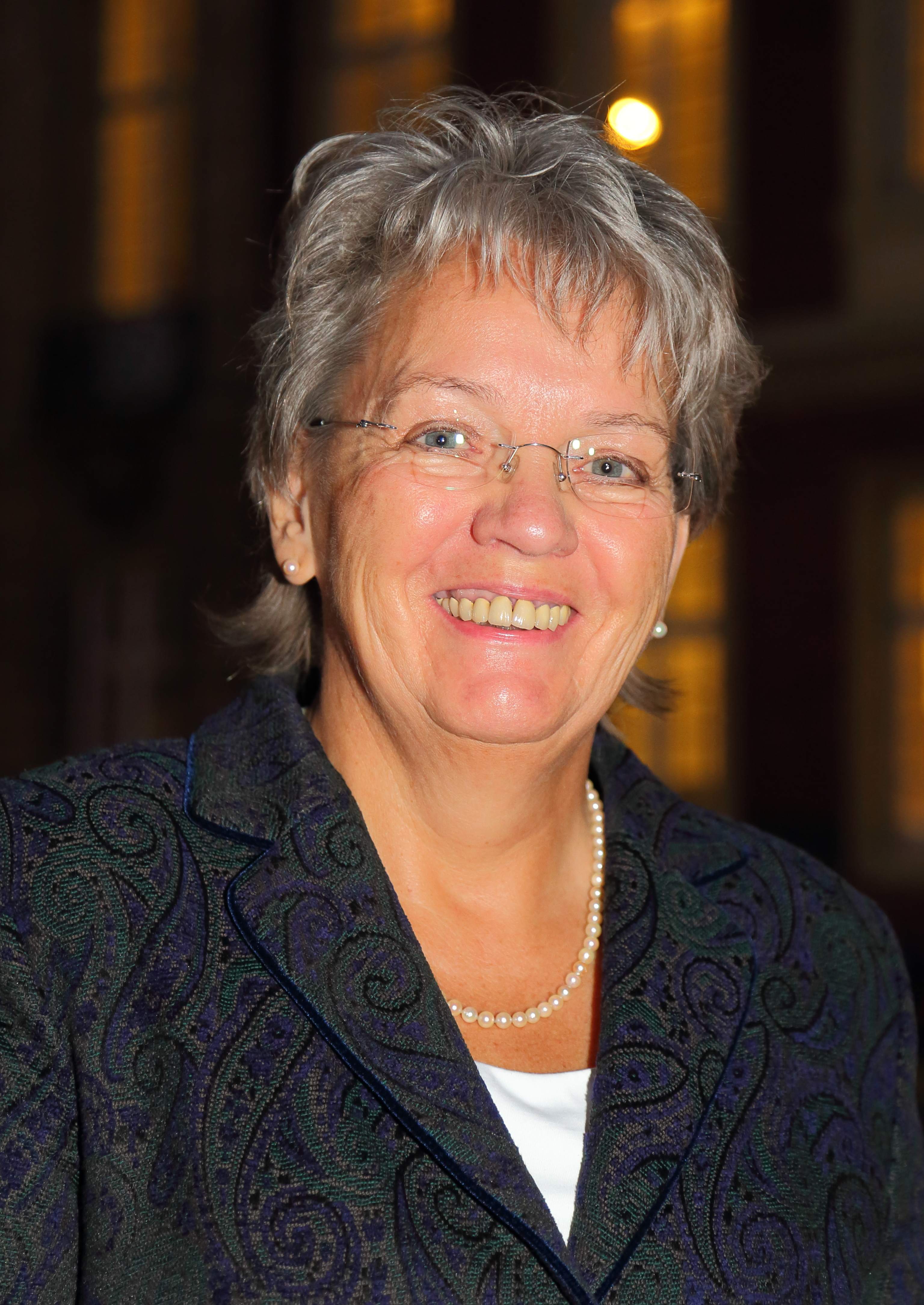 German communication scholar Dr. Marianne Ravenstein. She serves as a Prorector of the University of Münster (Westfälische Wilhelms-Universität Münster) in Münster, North Rhine-Westphalia, Germany.